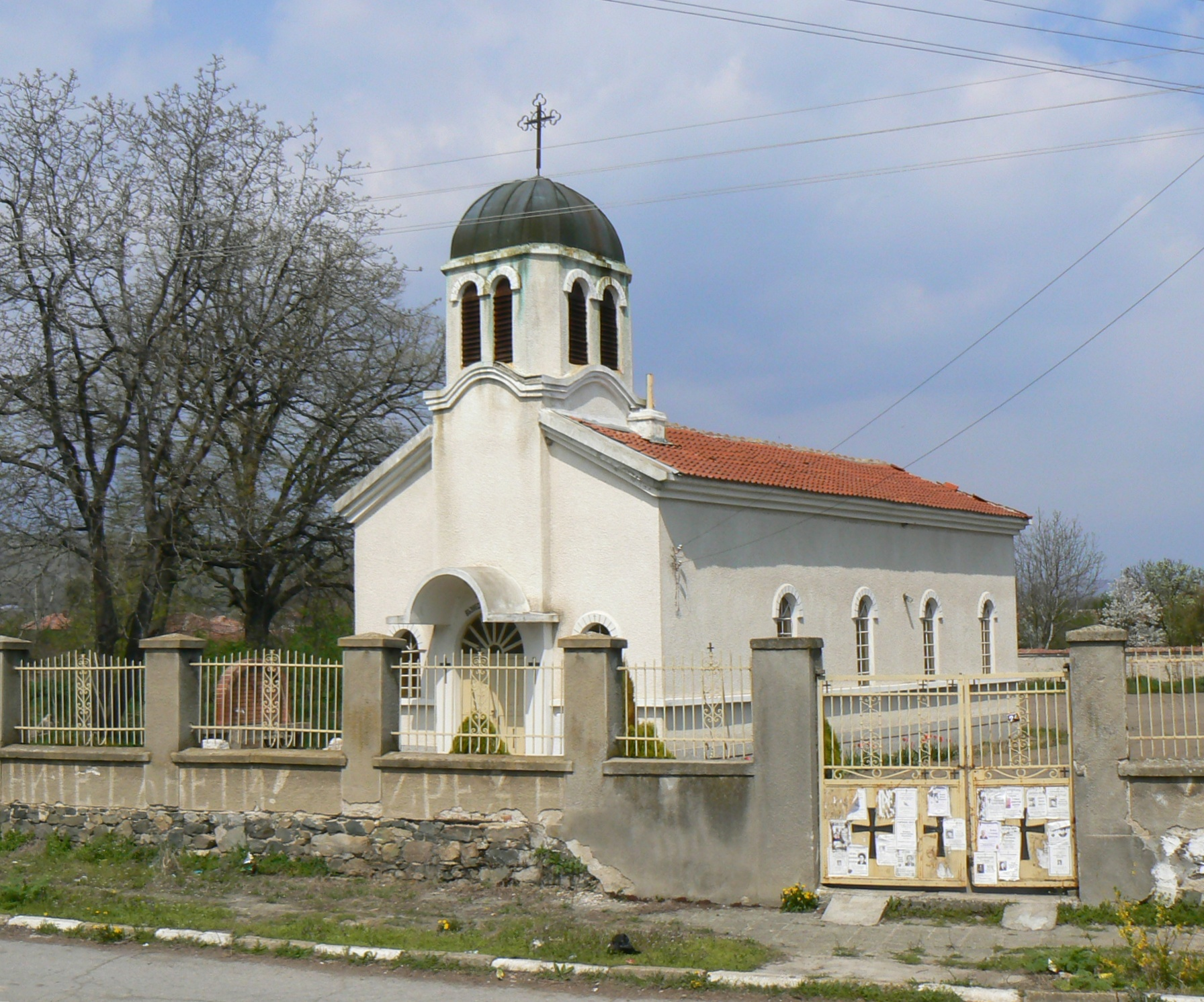 The church in village of Karanovo, Sliven District, Bulgaria